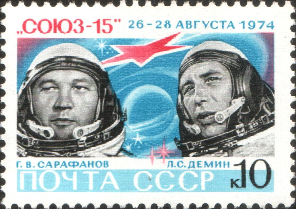 USSR stamp